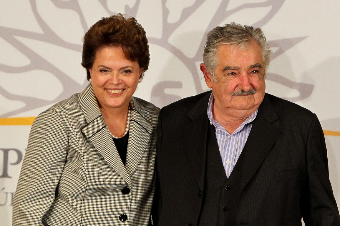 Montevideo - President Dilma Rousseff of Brazil and president José Mujica of Uruguay, during the press conference.